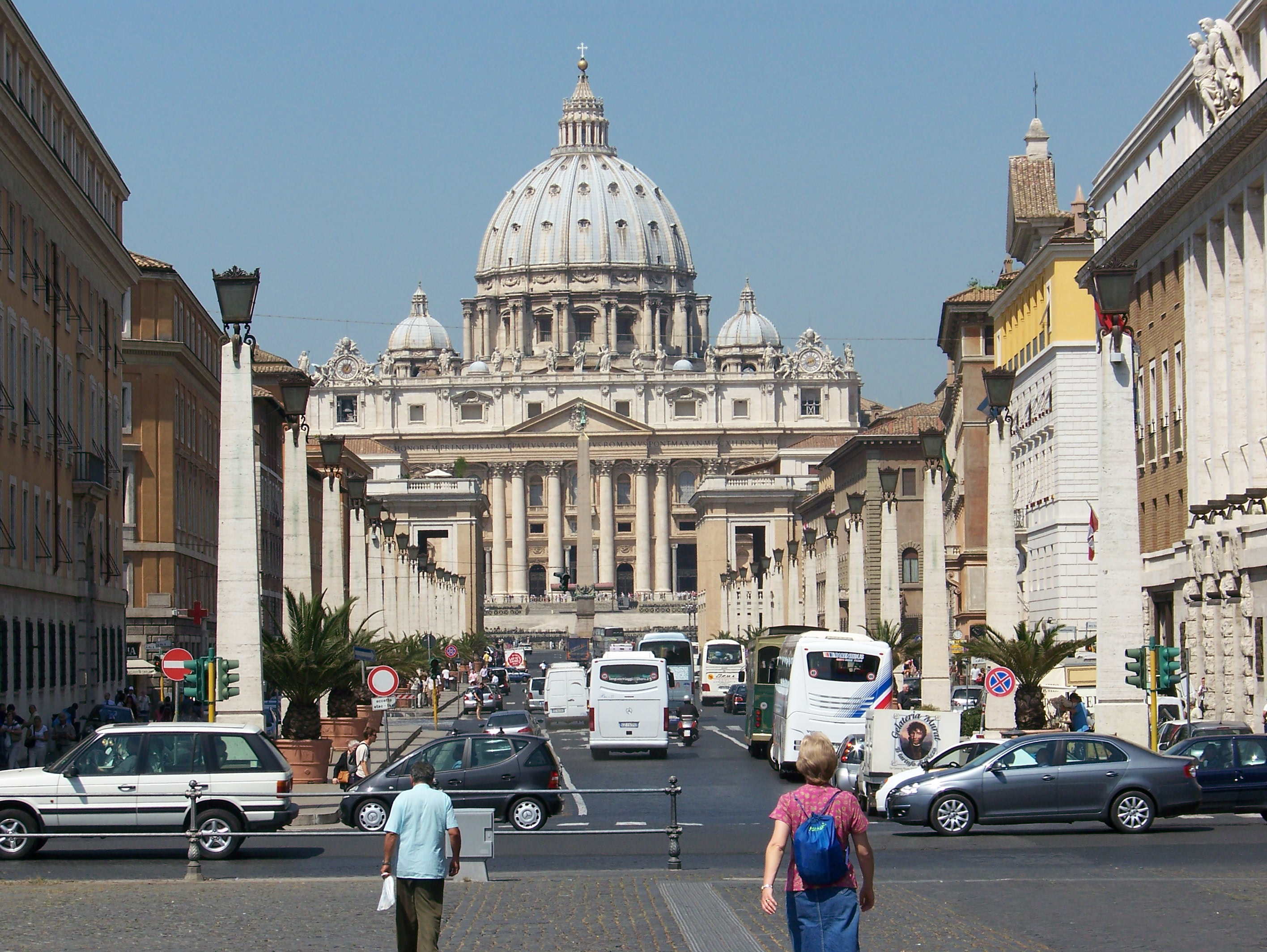 Taken in Rome, Italy in May 2007 by Chris Sloan